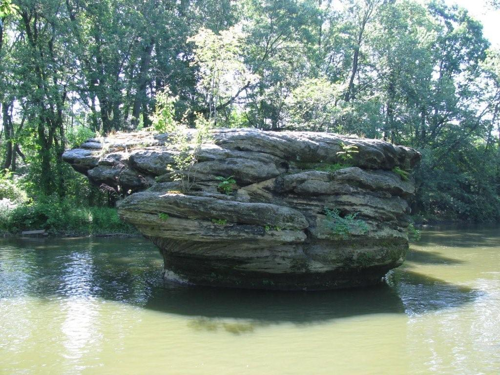 Picture of Standing Rock in Kent, Ohio in the Cuyahoga River. Standing Rock was also known as "Standing Stone" and "Council Rock" as it was a meeting place for some Native tribes who inhabited the area prior to European settlement in the late 1700s and early 1800s.